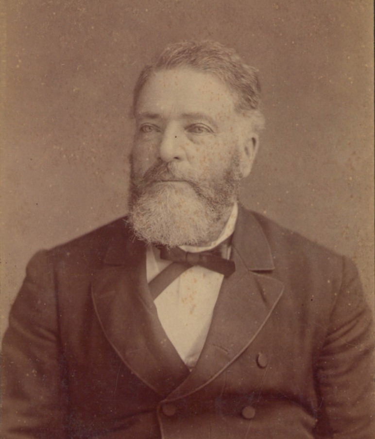 Pastoral and politician William Henry Sutton.